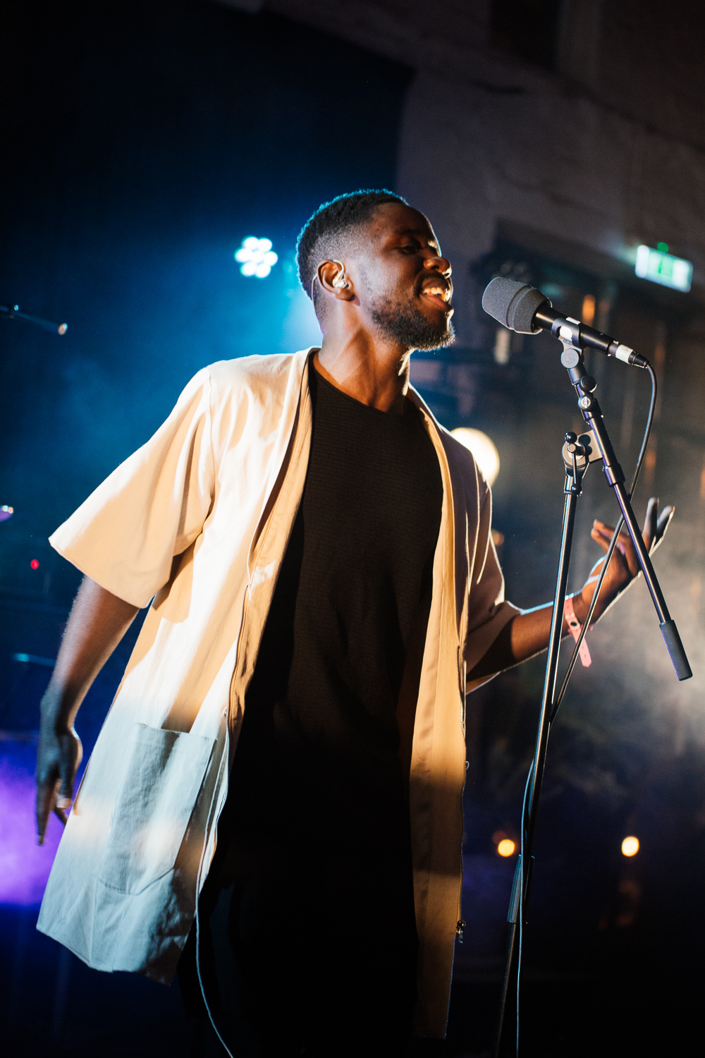 Mugisho performin at by:Larm 2017